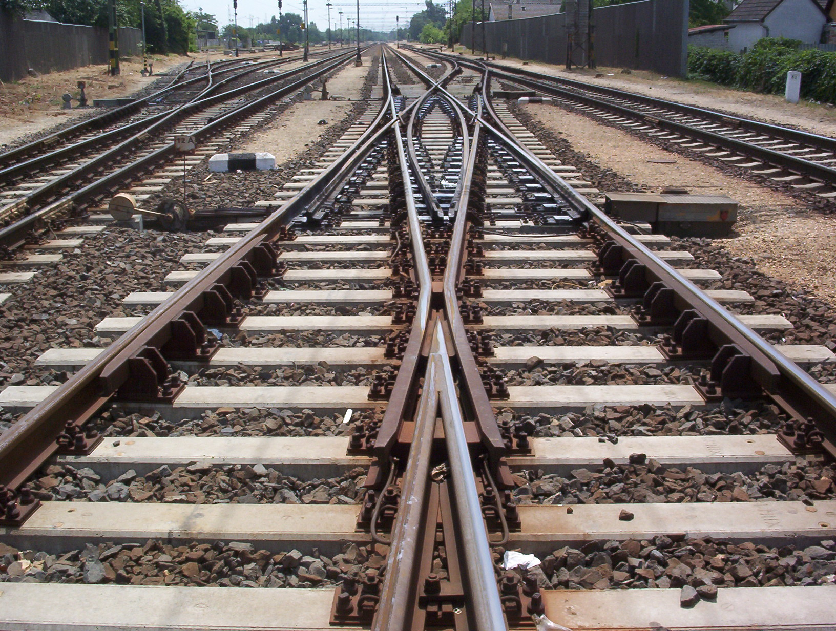 Type B54XIV double railway point with reinforced concrete sleepers; Budapest-Soroksár, Hungary